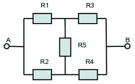 Wheatstone Bridge